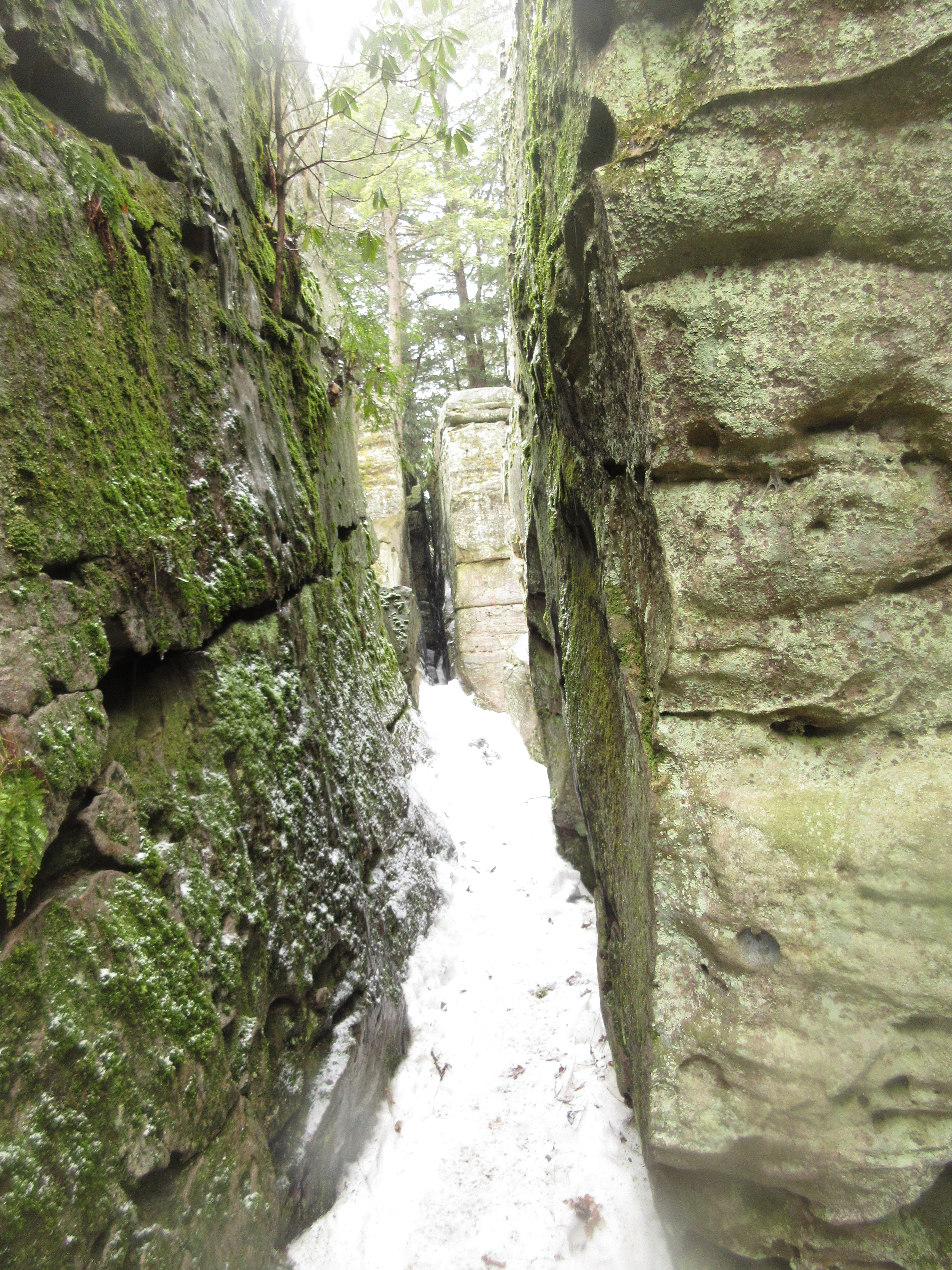 Depicted place: Bilger's Rocks